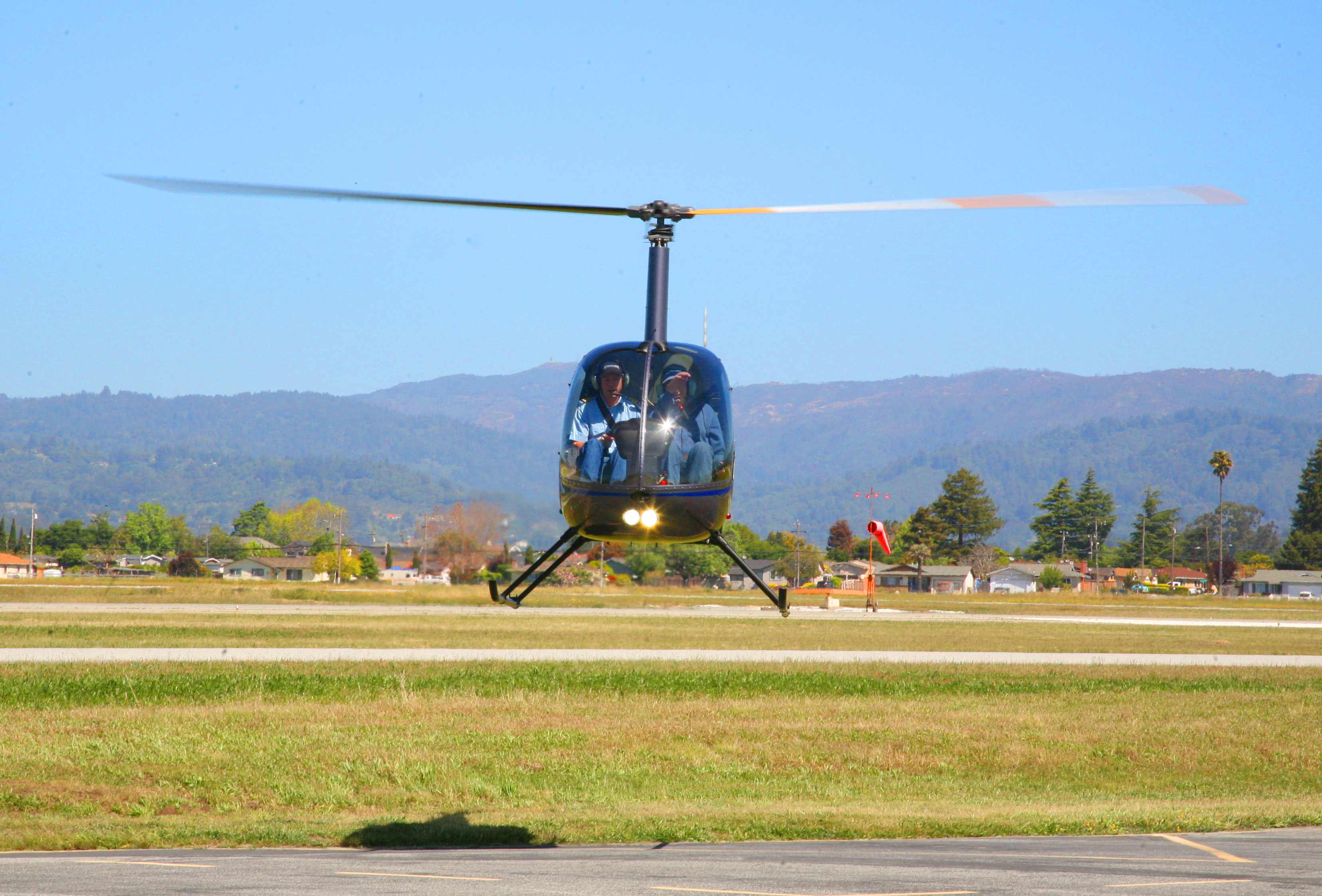 A Robinson R22 helicopter hovers over an airport field. A light and tight twin-seat, four-cylinder piston engine helicopter, the R22 is a commercial success.